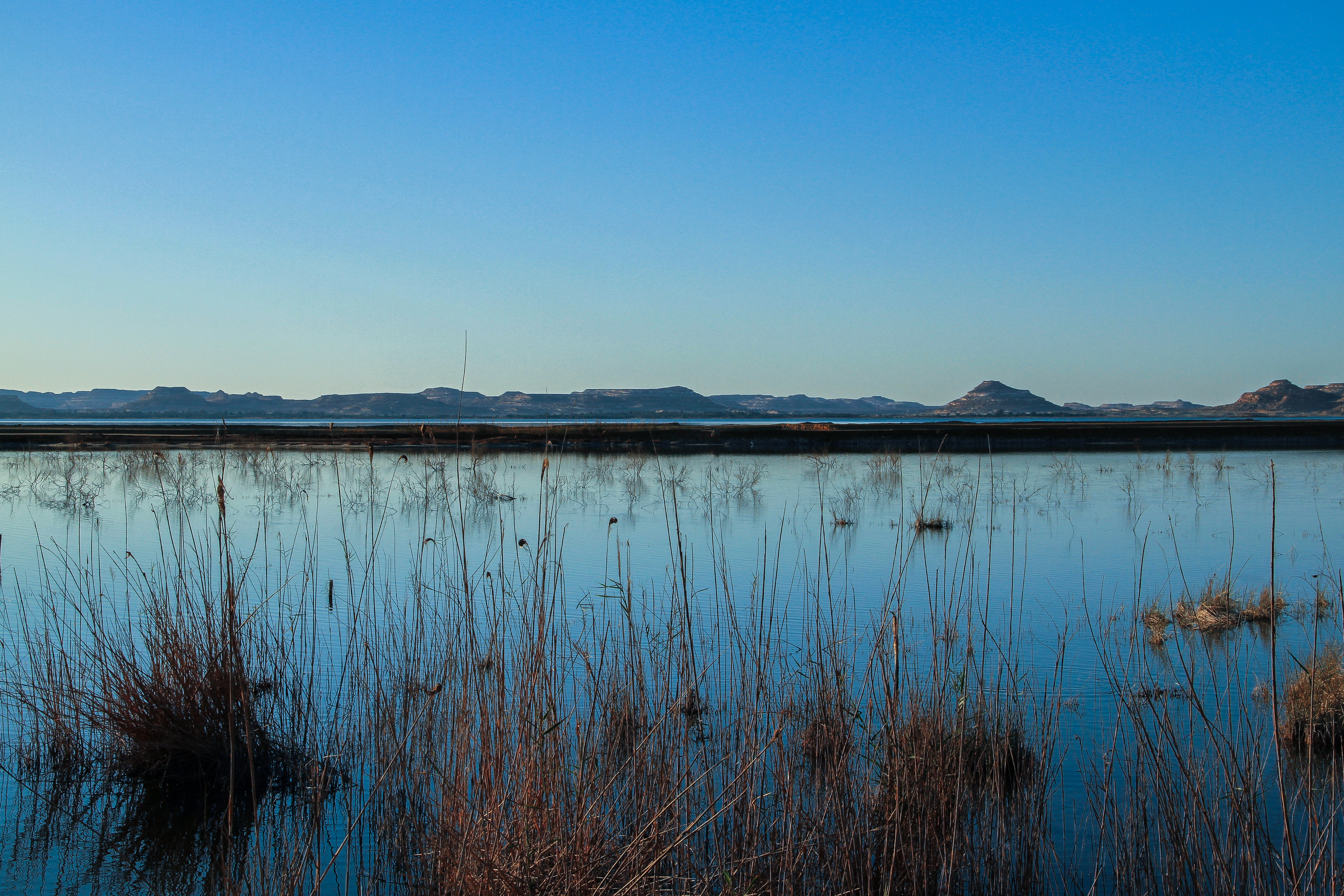 Island Aftnas Is a group of gardens located in downtown Salt Lake and was appointed by water and is considered one of the most beautiful eyes in the desert oasis of Siwa and enjoy watching the sunset and lies about 4 km west of Siwa